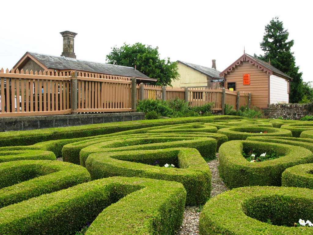 The topiary garden at the Highbridge Nursery in Williton, Somerset, England. This long-standing feature has been admired by many visitors passsing through the railway station next door.